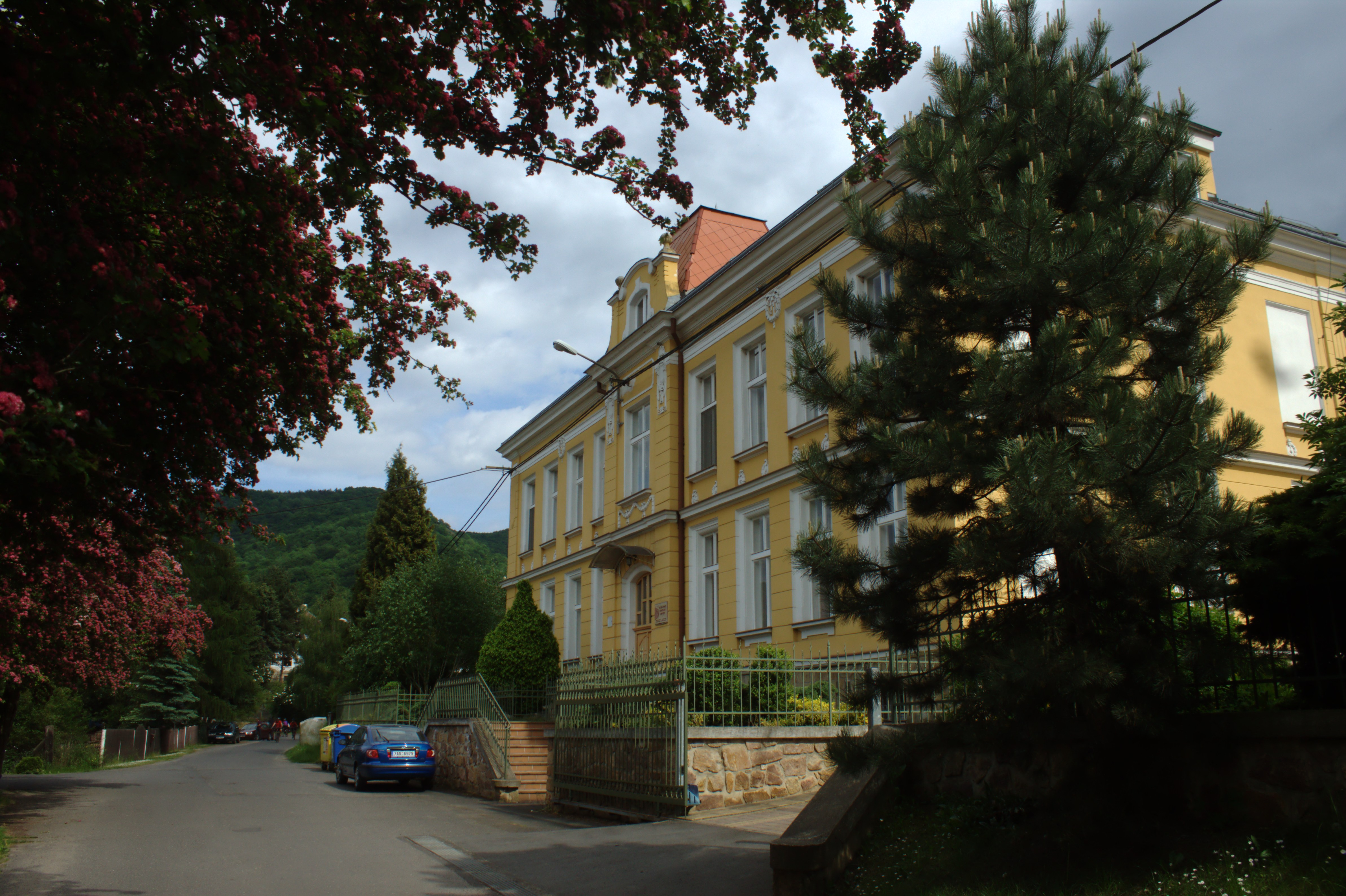 Former school building in Sebuzín, Ustí nad Labem Region, CZ